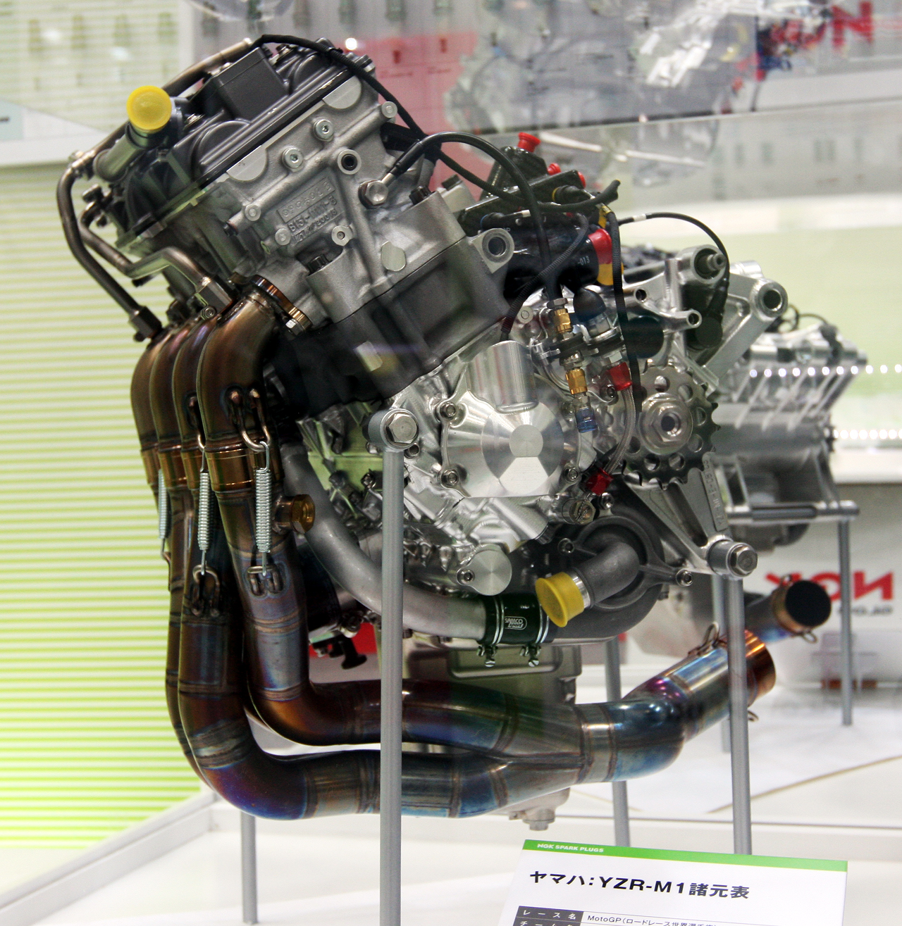 2008 Yamaha YZR-M1's engine. 800cc In-line 4-cylinder engine, DOHC.